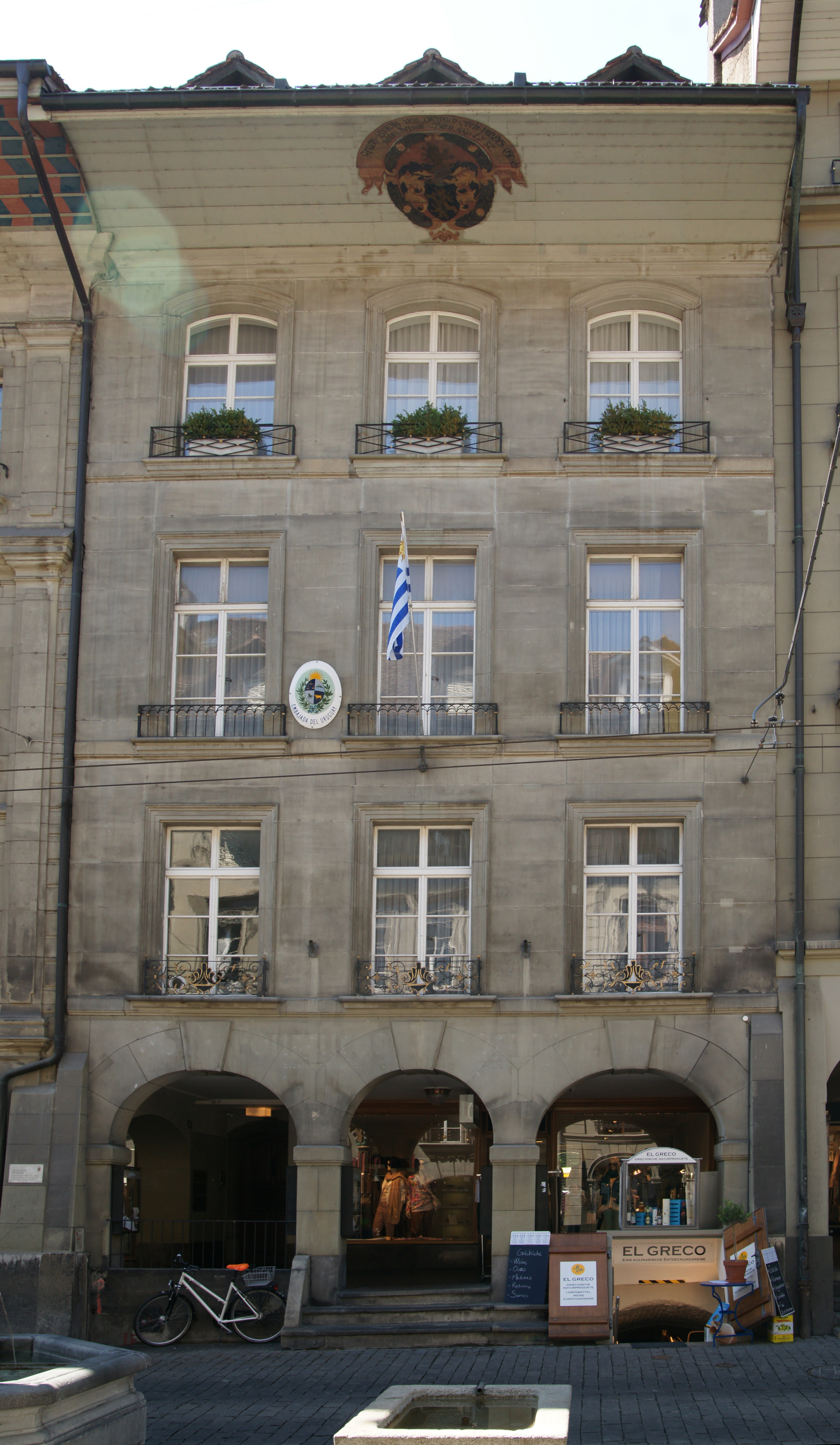 Embassy of Uruguay on Kramgasse 63, Bern, Switzerland.